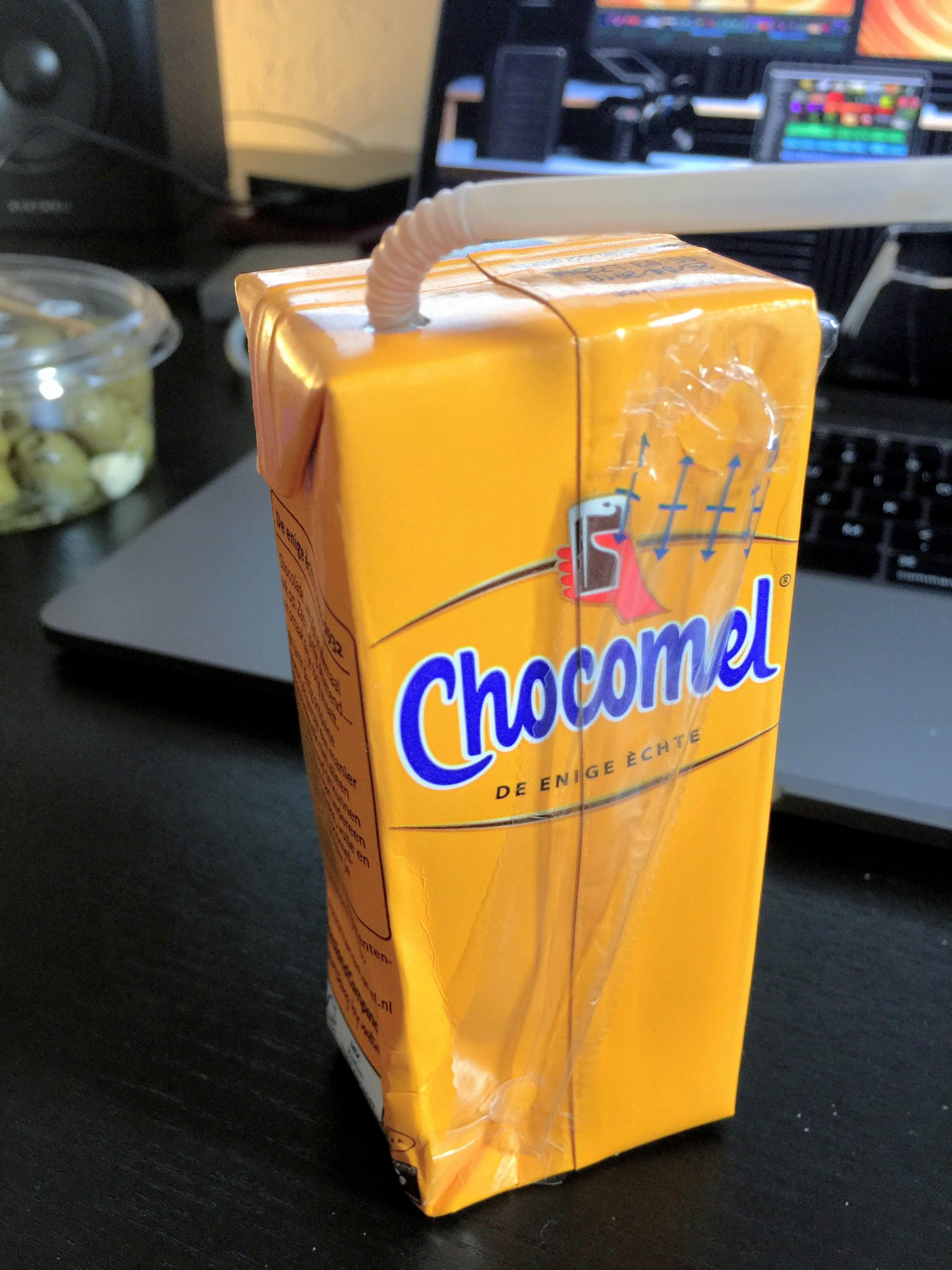 Chocomelk